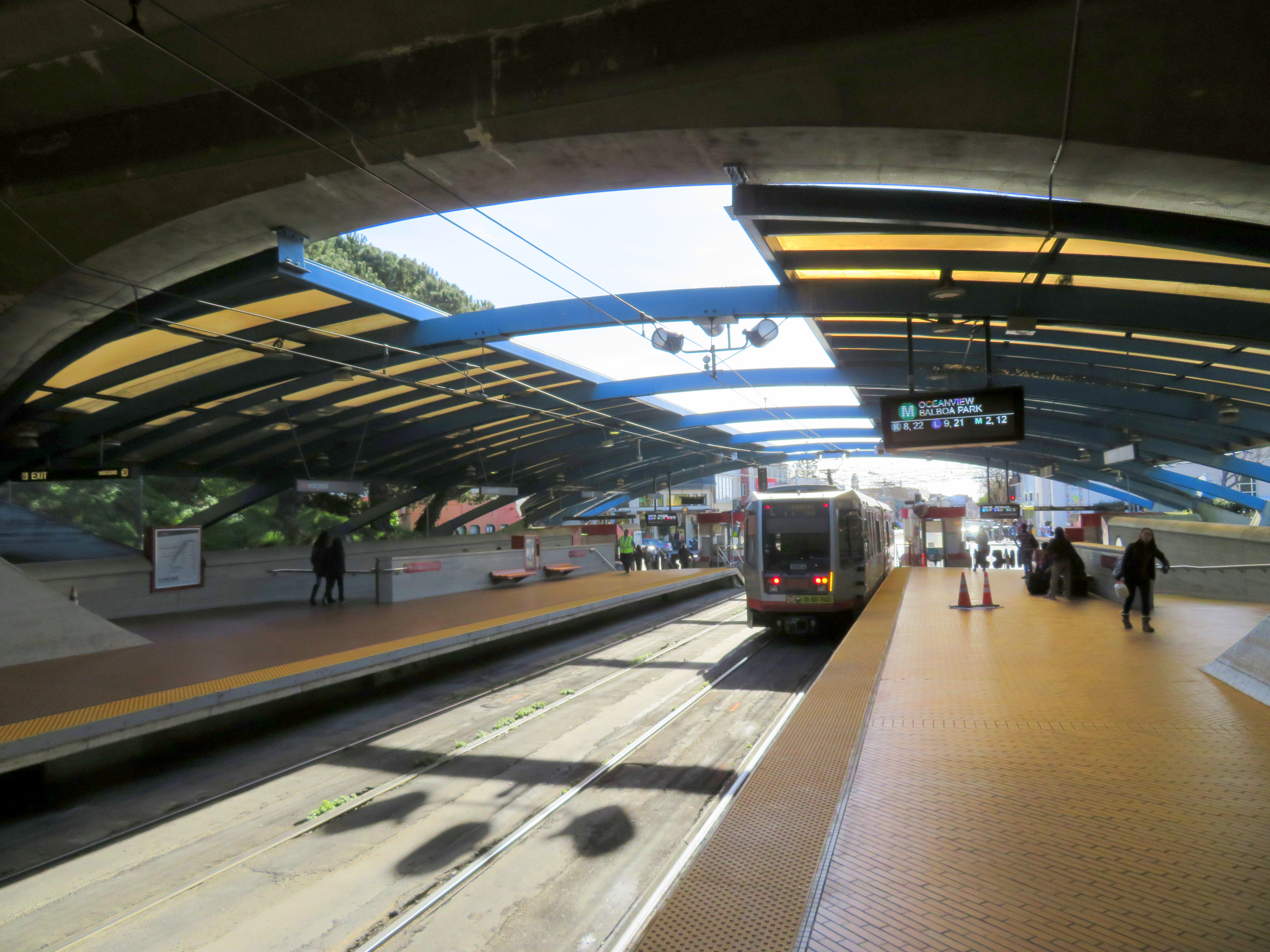 An outbound M Ocean View train at West Portal station in January 2018